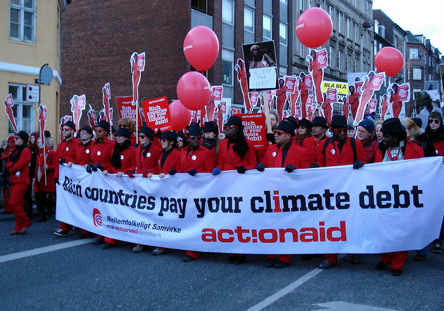 Watch ~12 min video from this event at Vimeo. This image is on page 5 of WORLD WATCH Volume 23, Number 2, March/April 2010, "Vision for a Sustainable World".